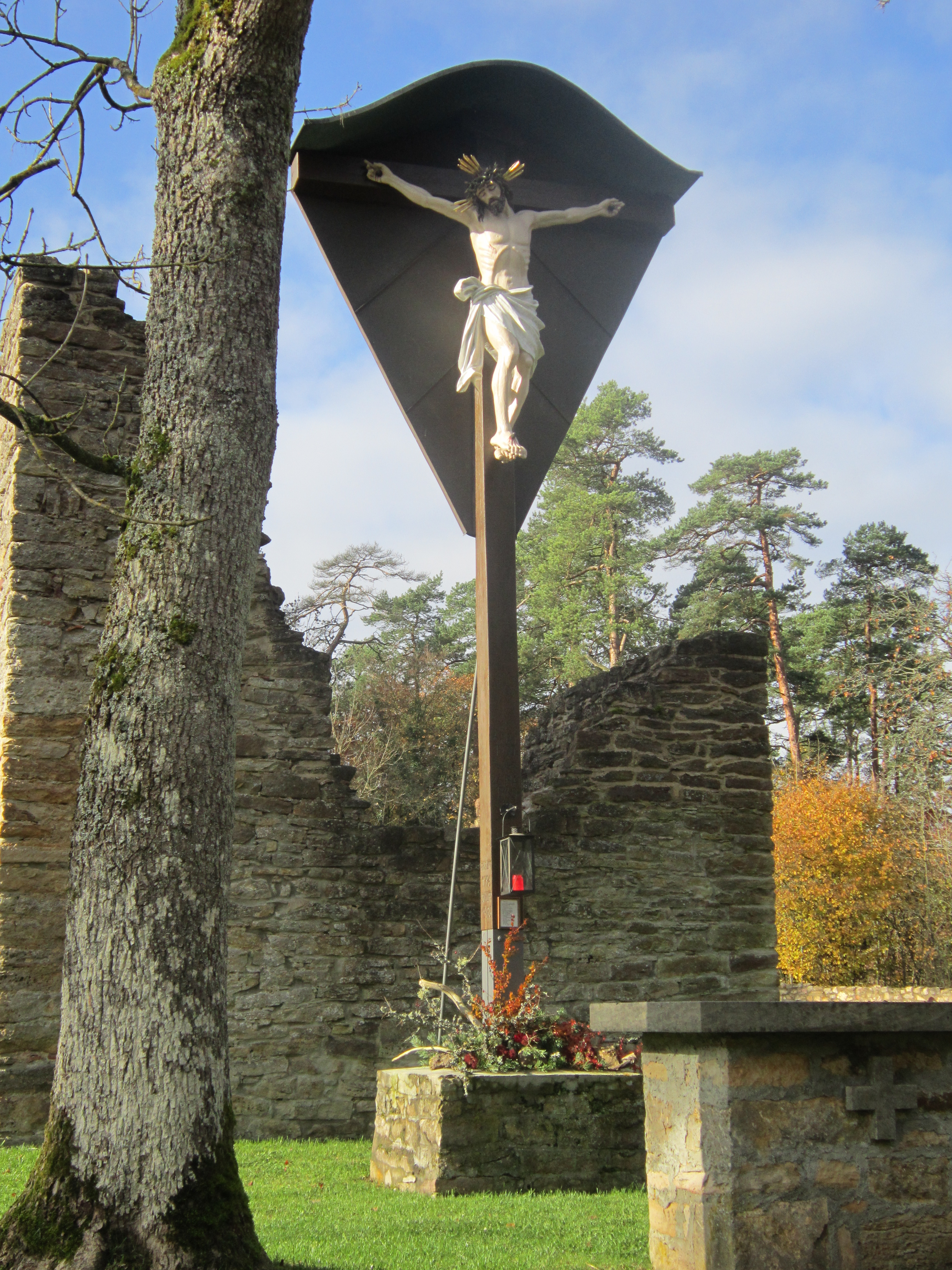 Cross at the "Michelskapelle", a monastery ruin in Burghausen, a quarter of the German town of Münnerstadt in Lower Franconia (Bavaria).